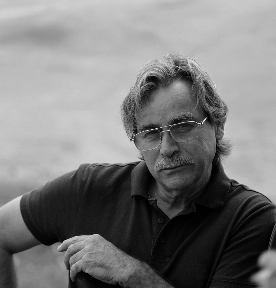 Saro Galentz